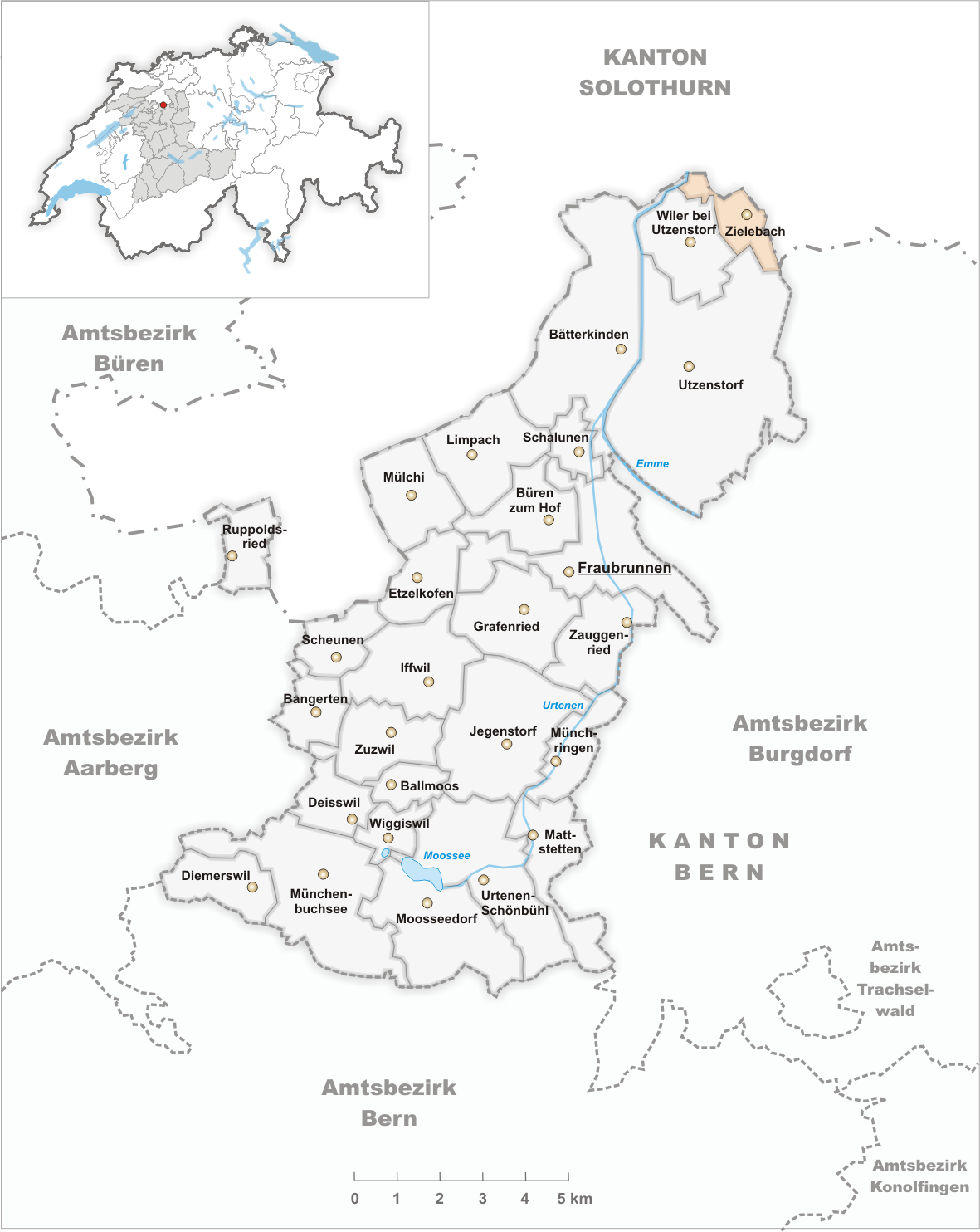 Municipality Zielebach